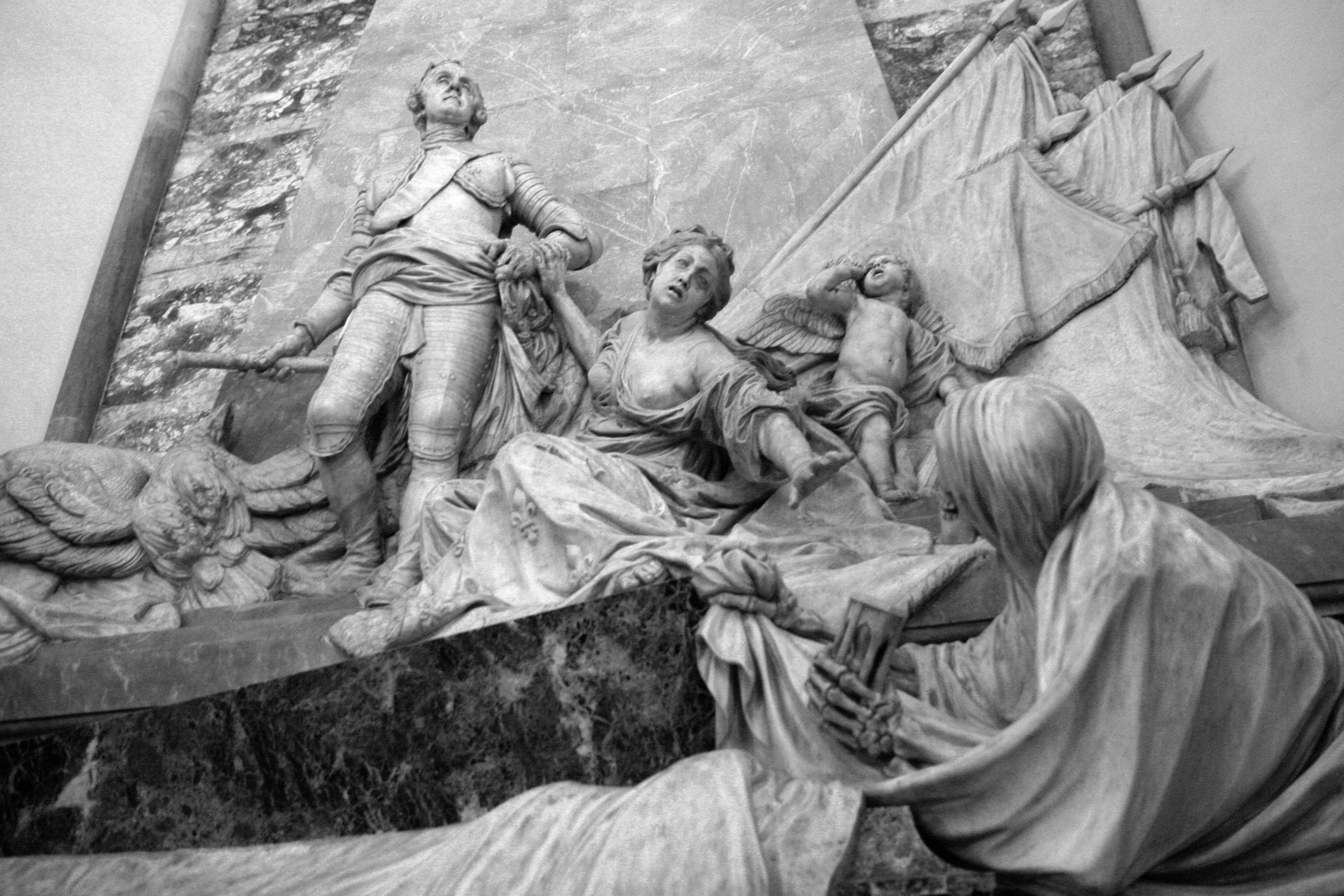 Mausoleum of Marshal Maurice de Saxe in Saint Thomas Church in Strasbourg, by Jean-Baptiste Pigalle